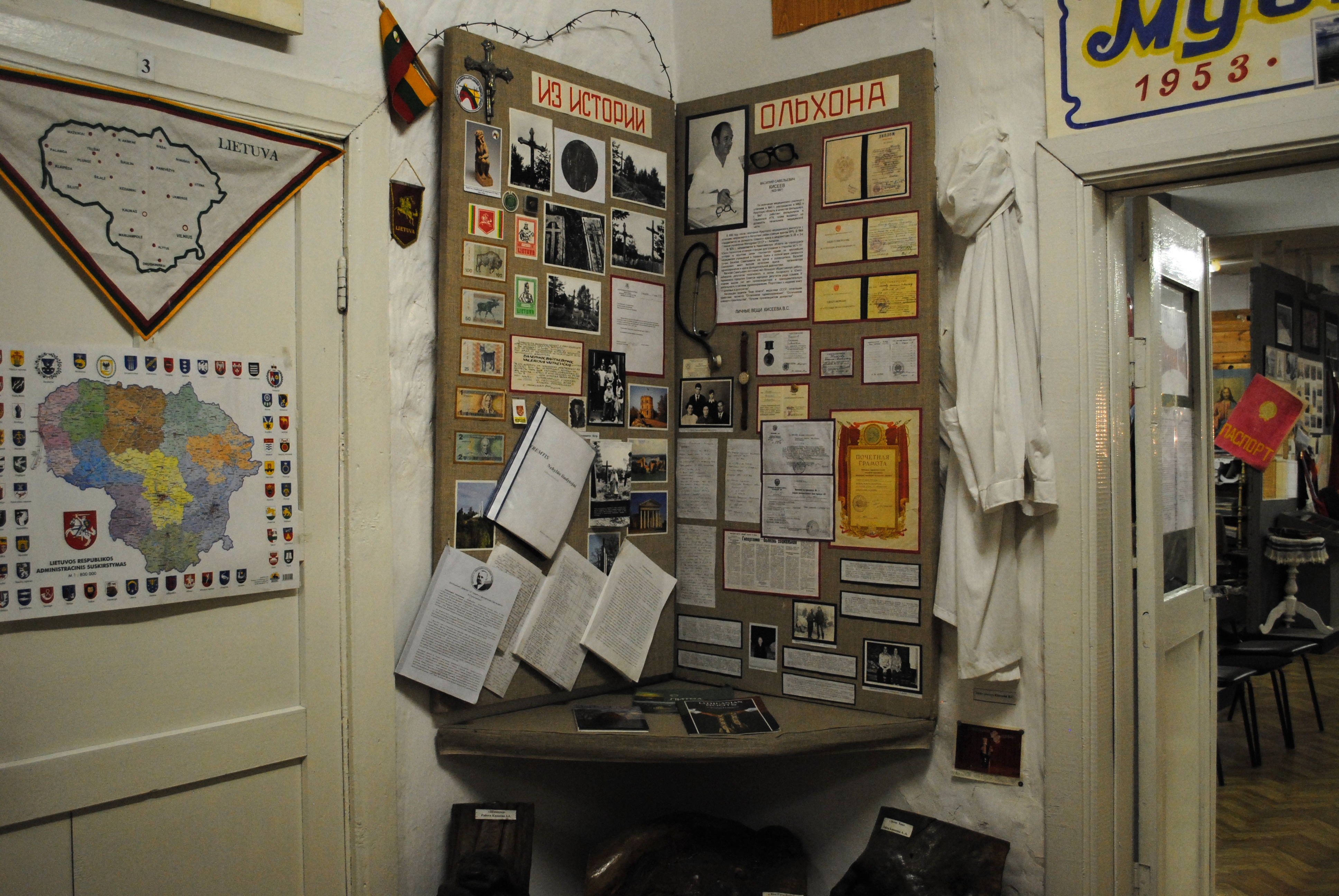 Olkhon